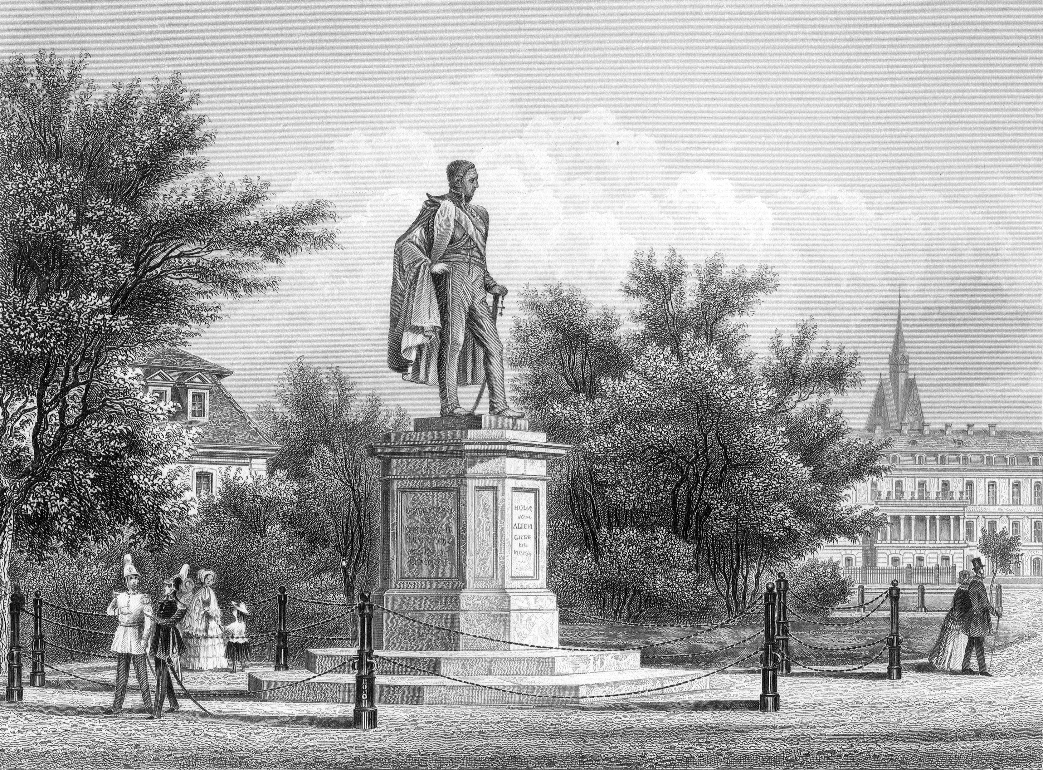 "Monument of General von Alten in Hanover"; steel engraving by Johann Poppel after a drawing of Wilhelm Kretschmer; printing and publishing by Gustav Georg Lange, Darmstadt. Sheet and plate are out of square.